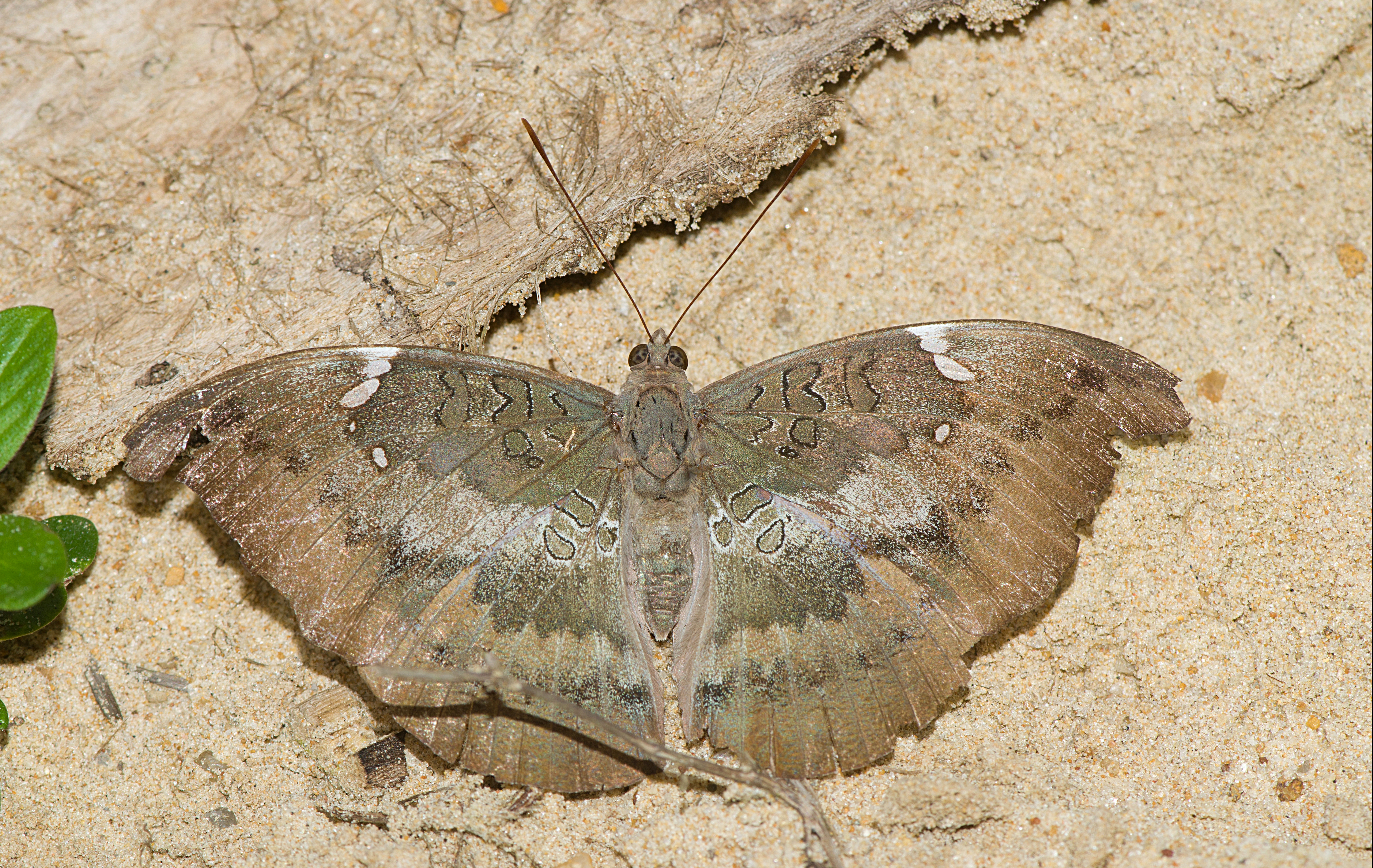 Butterfly collections from Uajith